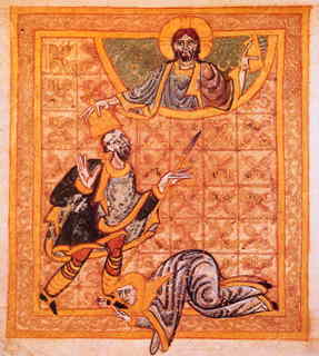 manuscript of the Gumpold legend (Bohemia, 10. century): adoration of St. Wenceslaus by princess Emma